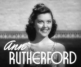 Cropped screenshot of Ann Rutherford from the trailer for the film Love Finds Andy Hardy.